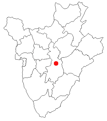 Gitega, Burundi Location Map; created with the GIMP. Made by User:Acntx.